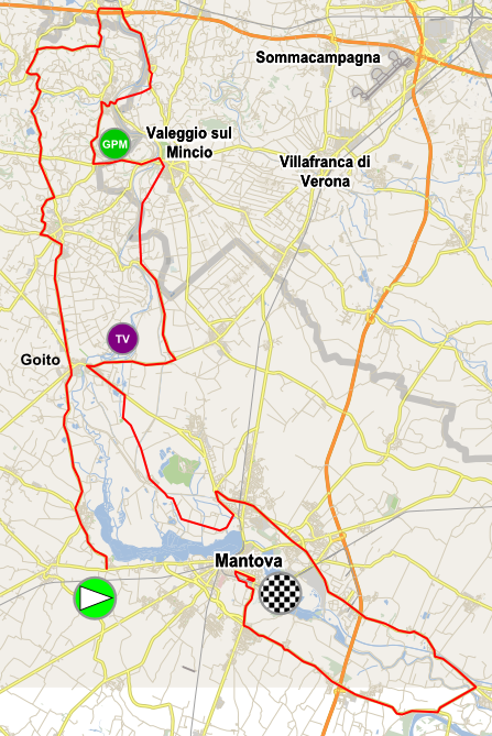 Map of the stage 3 of Giro Donne 2015. Background from OpenStreetMap.